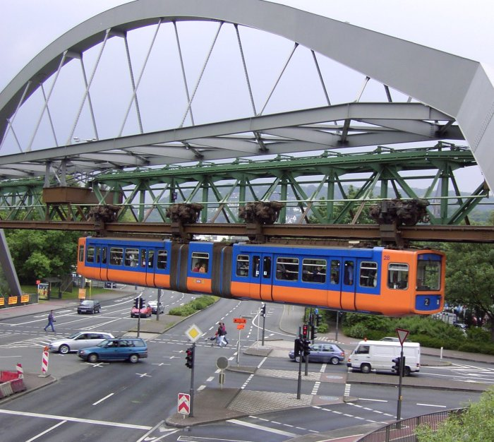 The Wuppertaler Schwebebahn "floats" above an intersection.